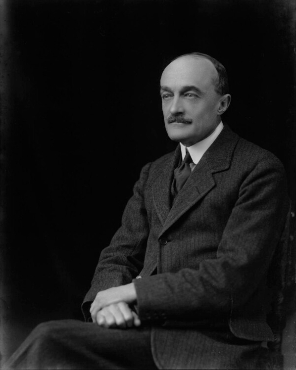 1920 Portrait photograph of Arthur Howe Browne, the Anglo-Irish Soldier.